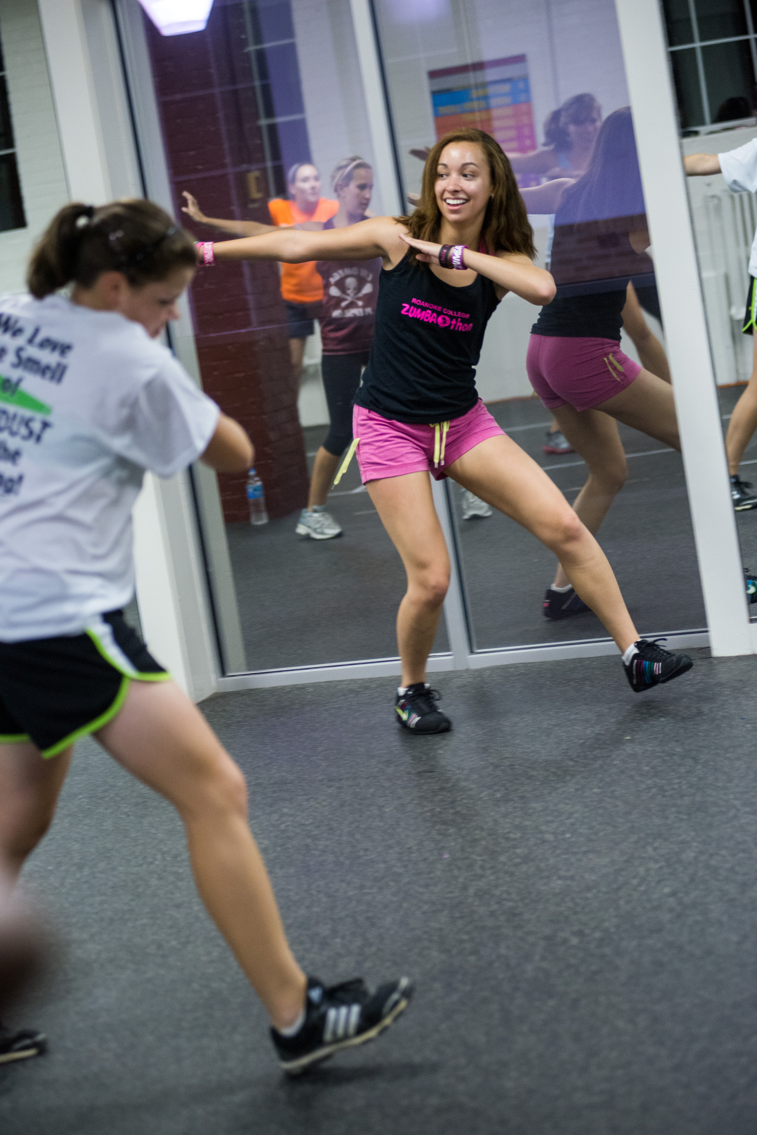 Zumba instructor Tyler Barnes, a junior at Roanoke College, teaches five zumba classes a week in the Alumni Gym.